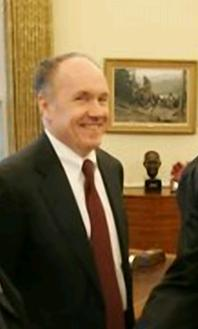 Edward C. Prescott